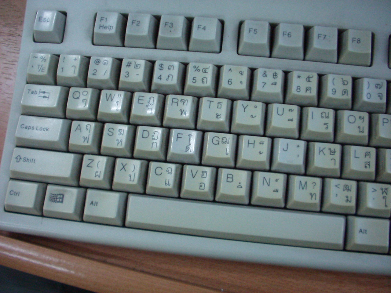 Thai Keyboard closeup (Ban Nathon, Samui, Thailand)